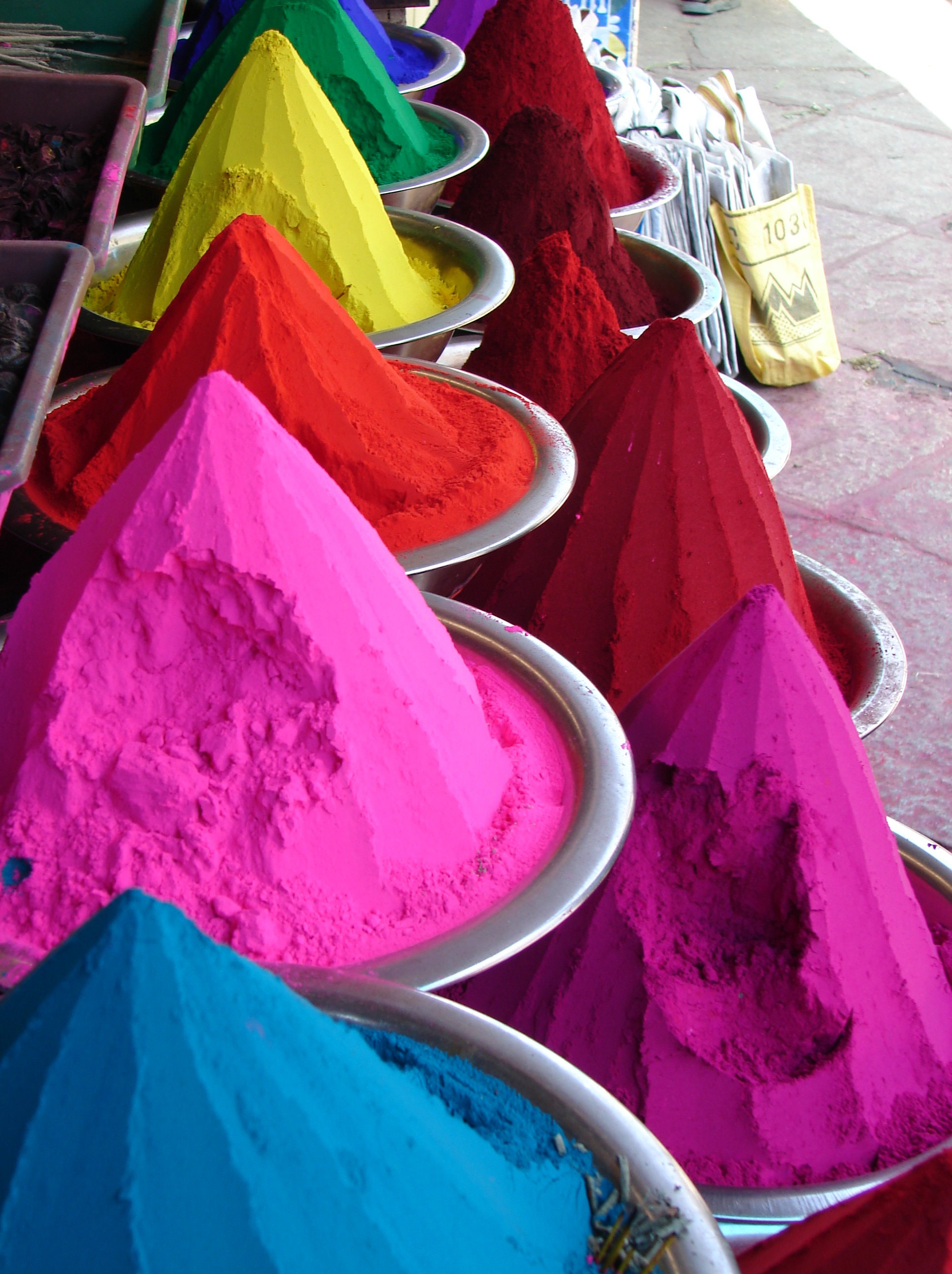 Indian natural dyes or Kumkum powder on sale in Mysore, India.